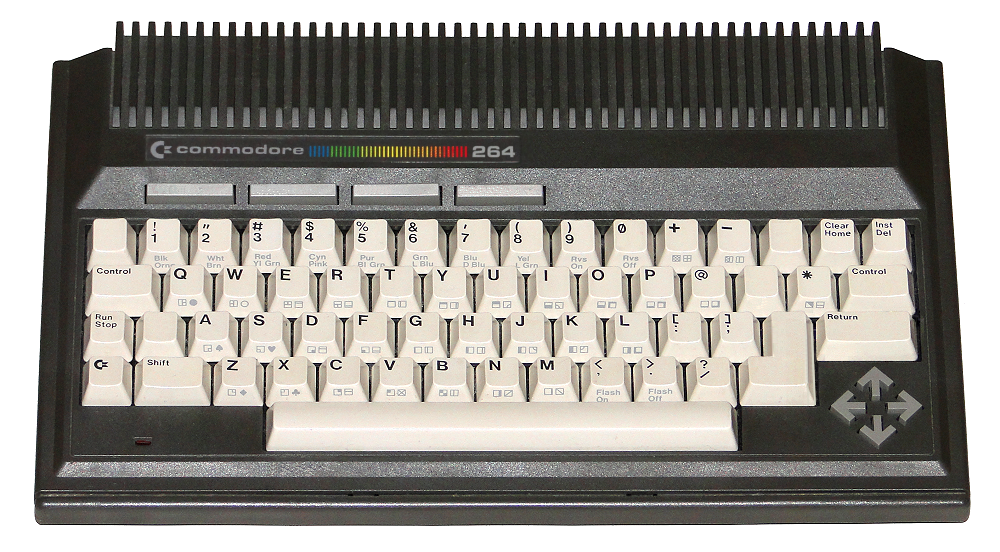 Commodore 264 Prototype (Photomontage)